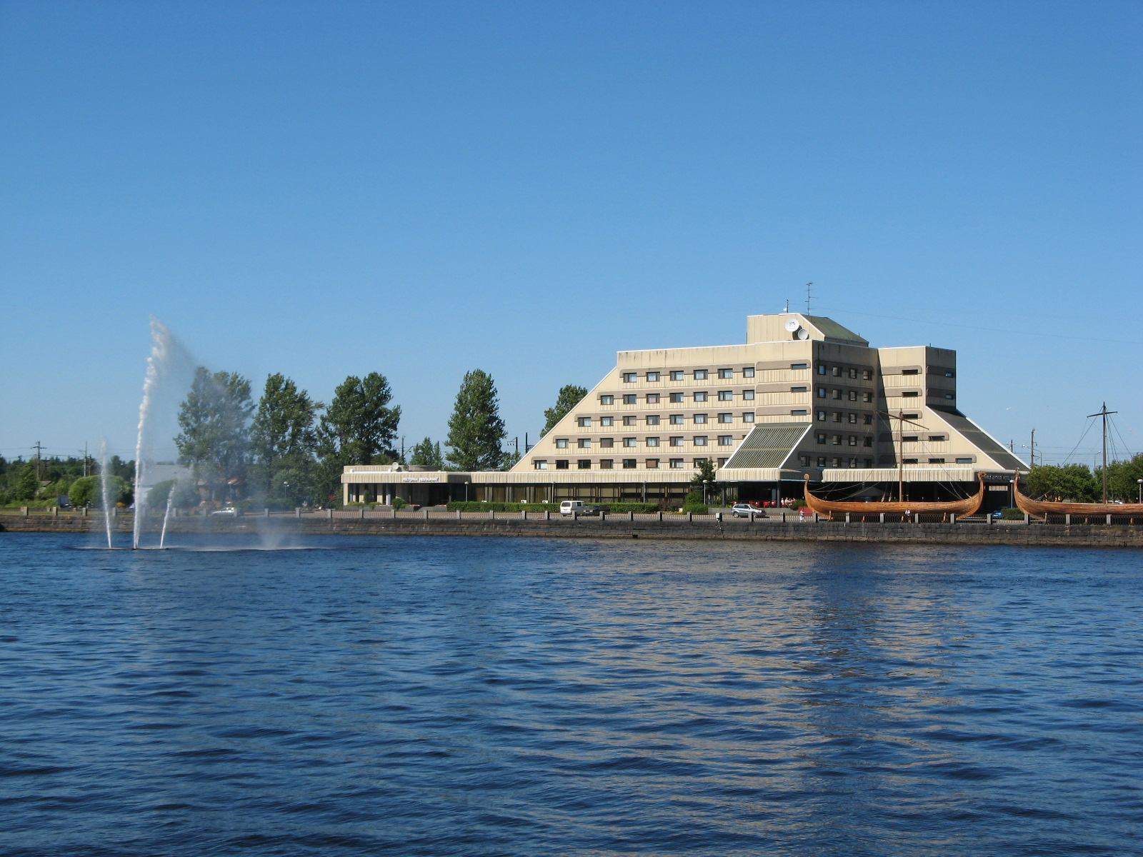 «Druzhba» hotel in Vyborg, Russia.